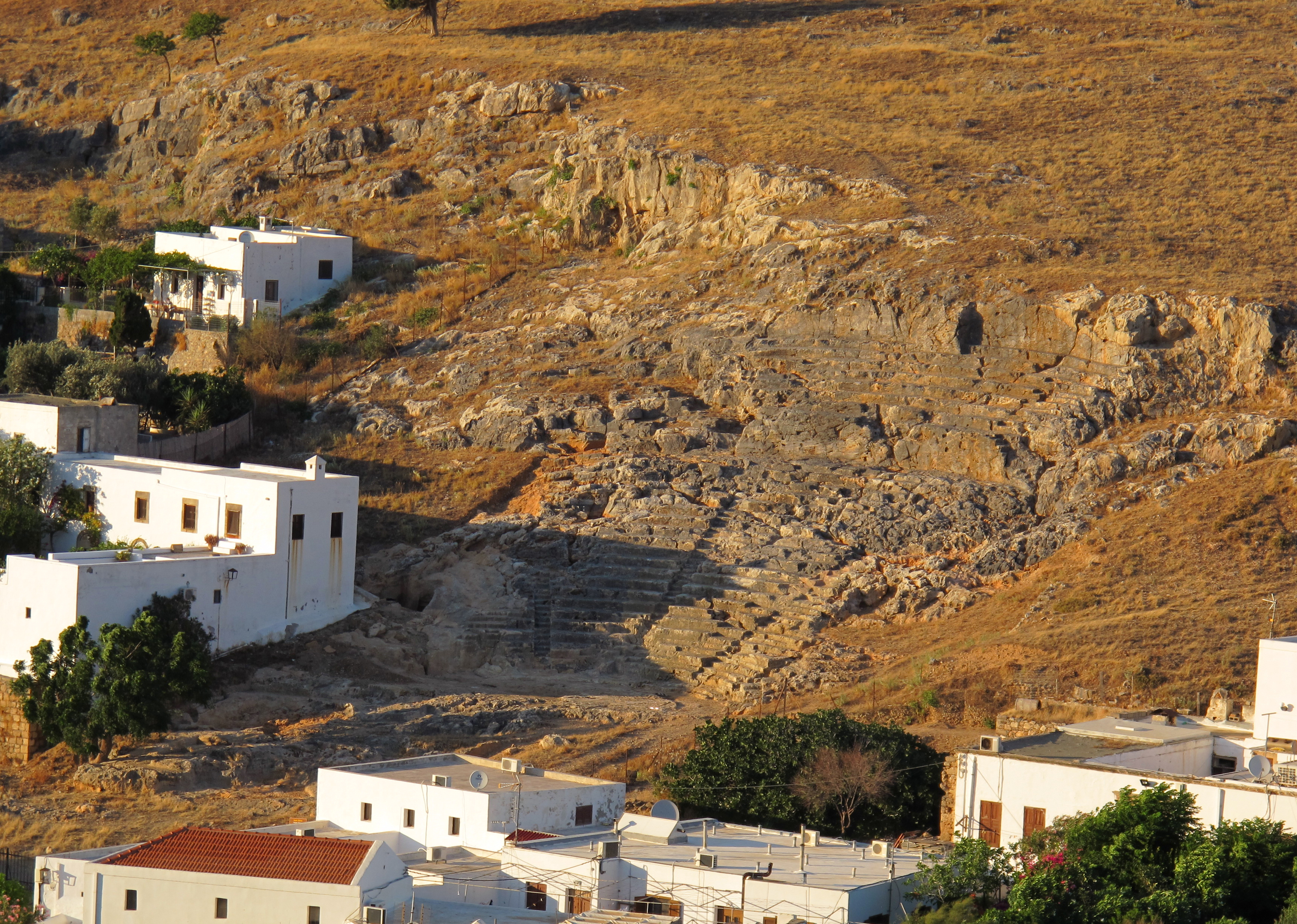 Ancient Greek theatre (Lindos)